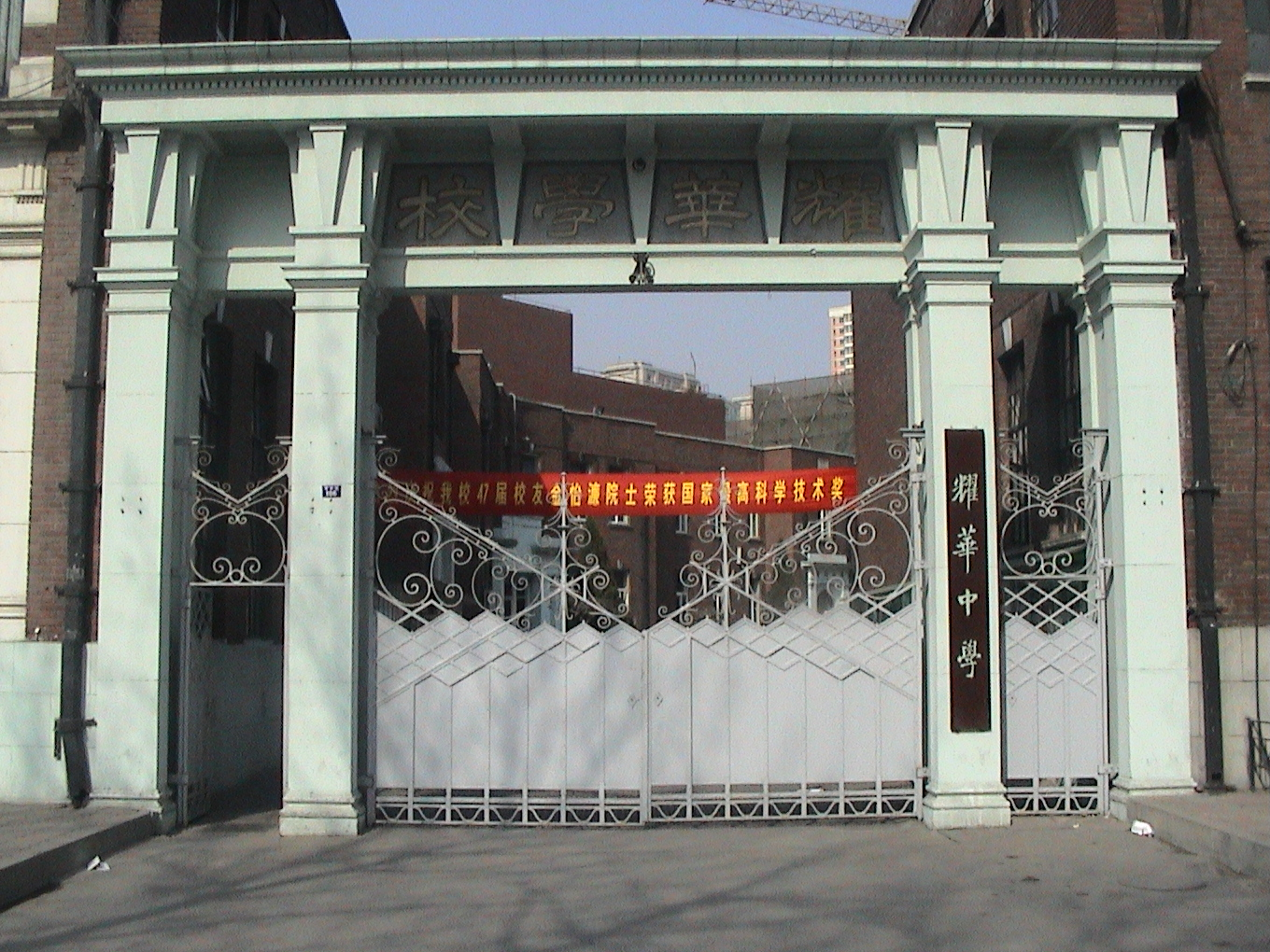 Yaohua High School, Tianjin